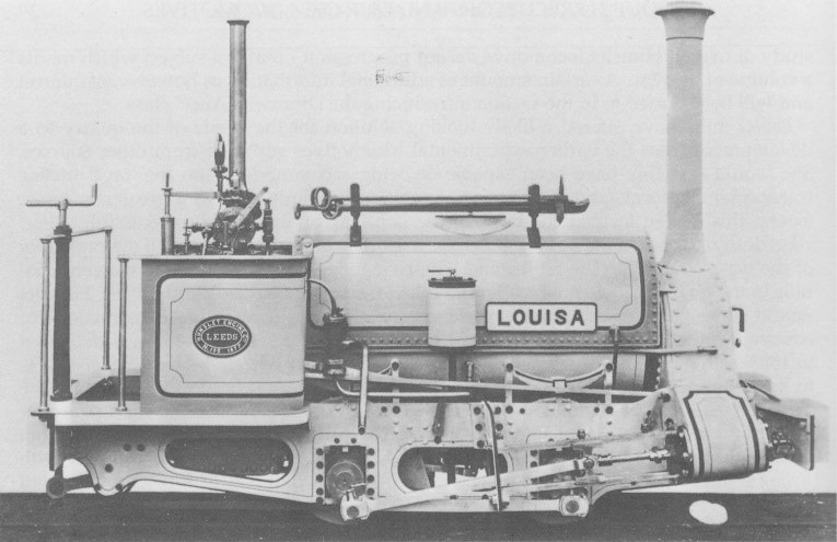 Quarry locomotive Louisa (Works No. 195/1877), Hunslet works photograph